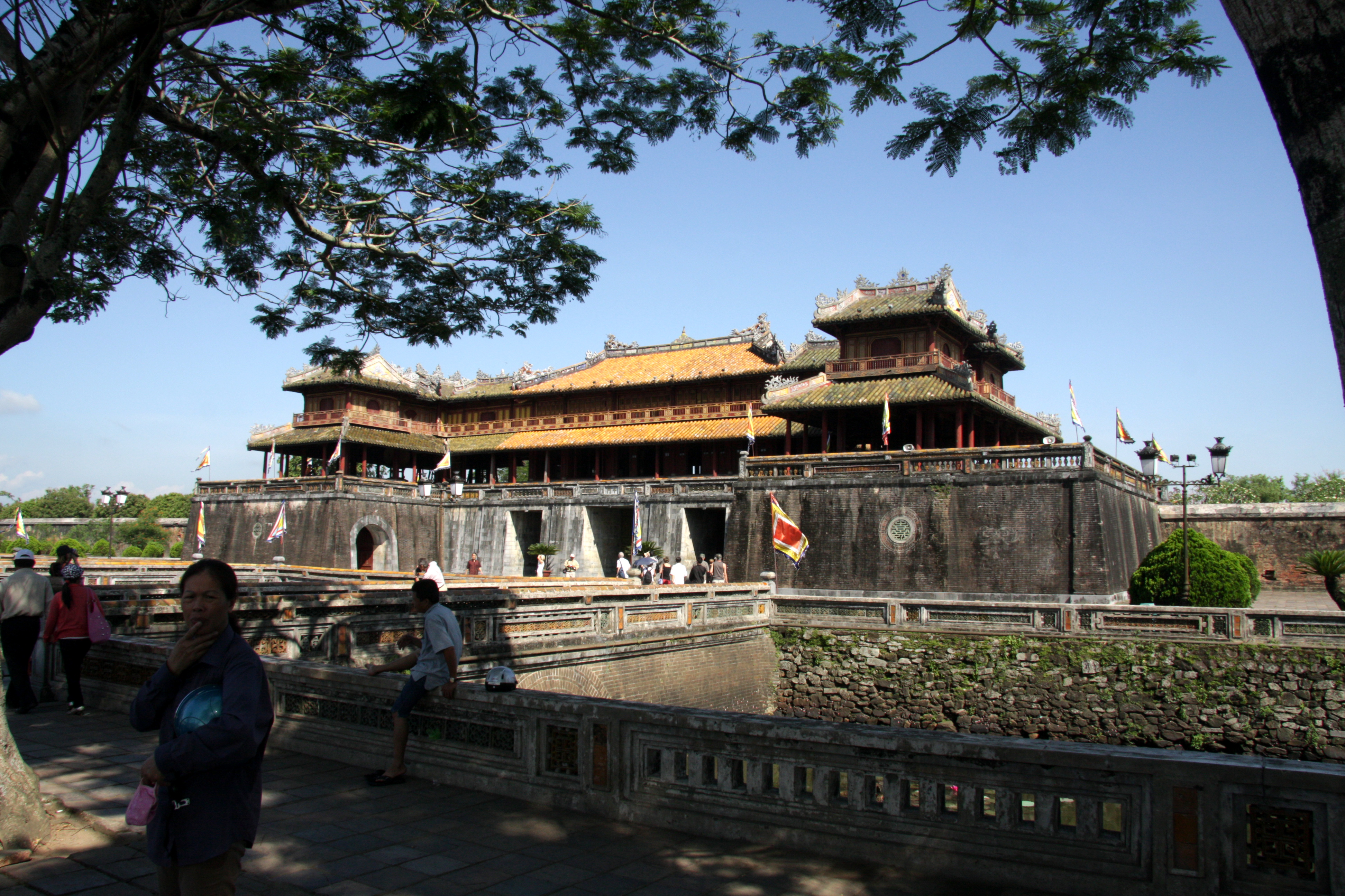 Imperial palace, hue, vietnam